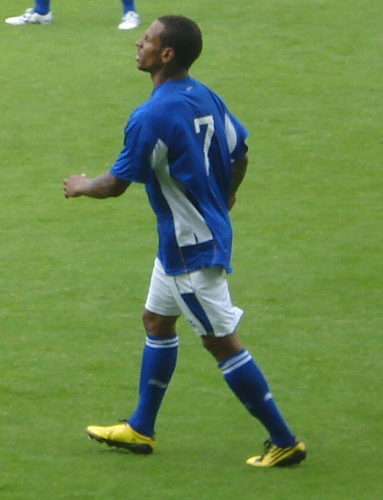 Immage of D.J. Campbell